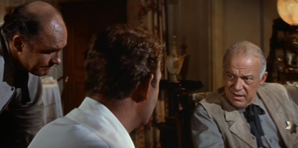 L. to R. : R.G. Armstrong, Charles Drake (back), and Willis Bouchey in No Name on the Bullet (1959) - trailer (cropped screenshot).